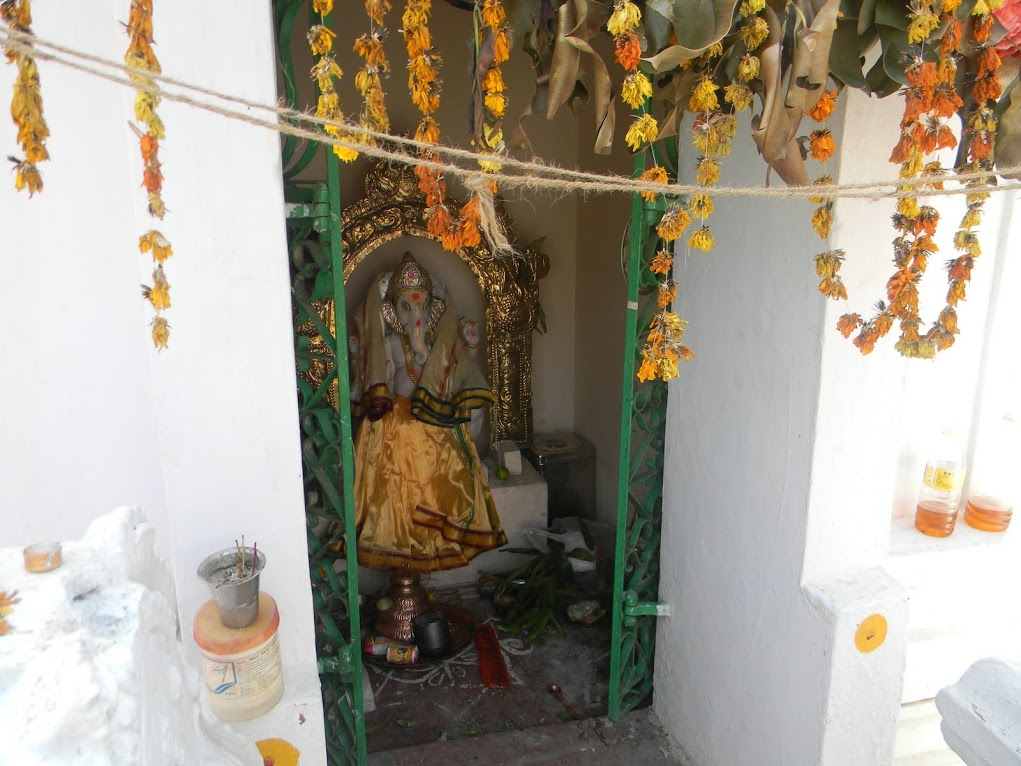 Idle of Lord Vinayaka at Ganikapudi Village.